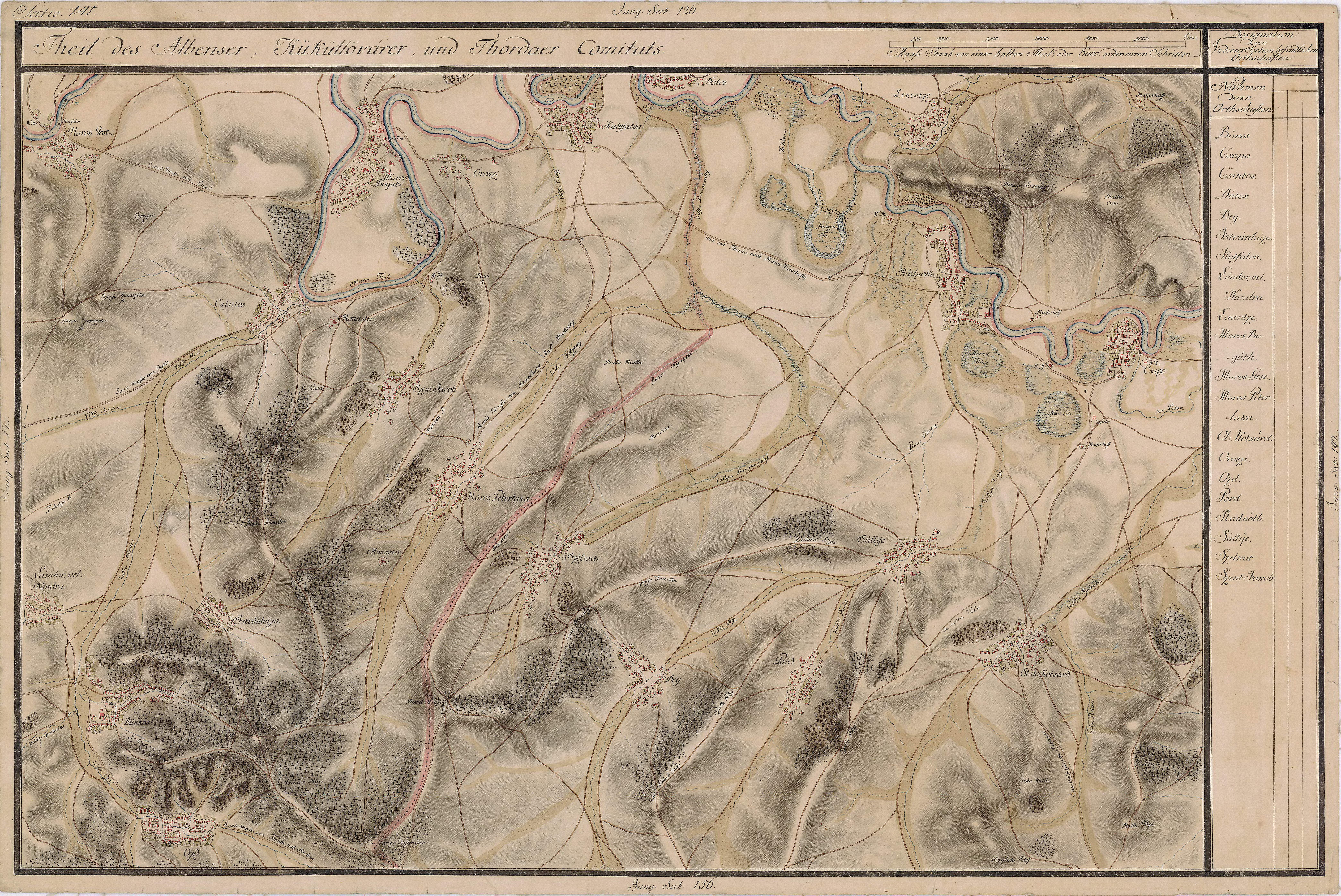 Grand Duchy of Transylvania, 1769-1773. Josephinische Landaufnahme pg.141